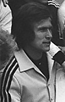 Jupp Heynckes 1974 / Archief : Fotocollectie Anefo Reportage / Serie : [ onbekend ] Beschrijving : Finale wereldkampioenschap voetbal 1974 in Munchen, West Duitsland tegen Nederland 2-1; Duitse elftal met wereldbeker Datum : 7 juli 1974 Locatie : München, Nederland, West-Duitsland Trefwoorden : elftallen, finales, sport, voetbal, wereldkampioenschappen Fotograaf : Verhoeff, Bert / Anefo Auteursrechthebbende : Nationaal Archief Materiaalsoort : Negatief (zwart/wit) Nummer archiefinventaris : bekijk toegang 2.24.01.05 Bestanddeelnummer : 927-3098